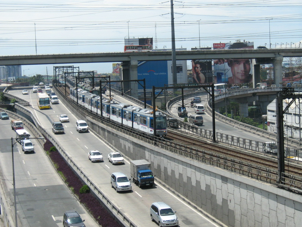 MRT-3 train entering Magallanes interchange, Makati, Philippines